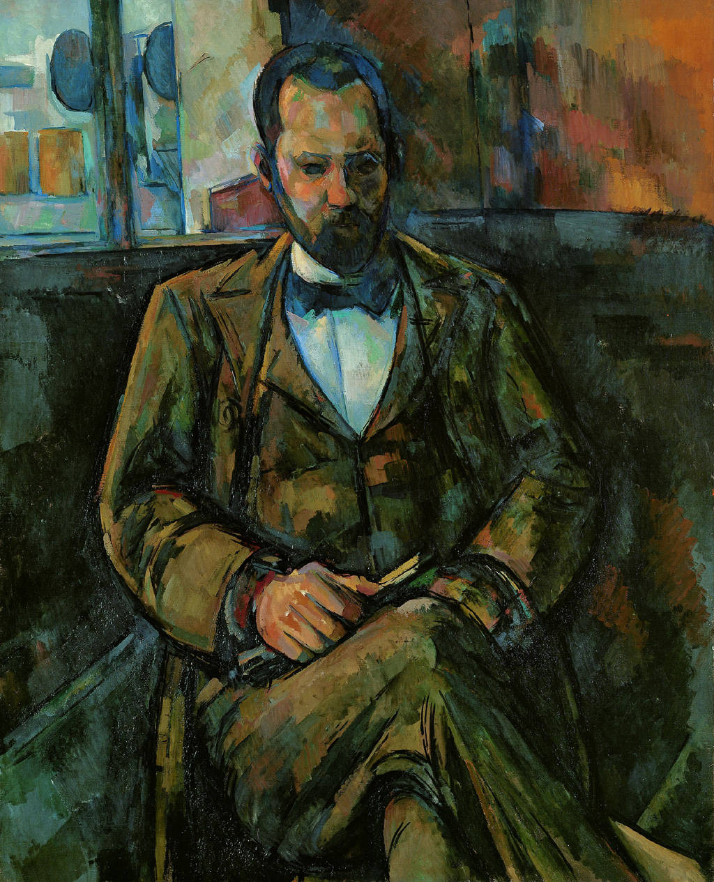 Portrait of Ambroise Vollard Wikidata has entry Q3399375 with data related to this item.